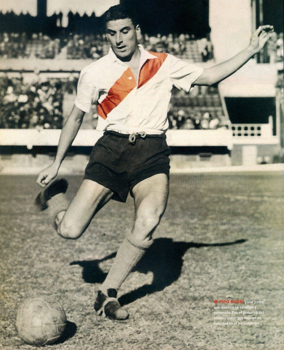 River Plate player Nestor Rossi in 1946. El Gráfico magazine.